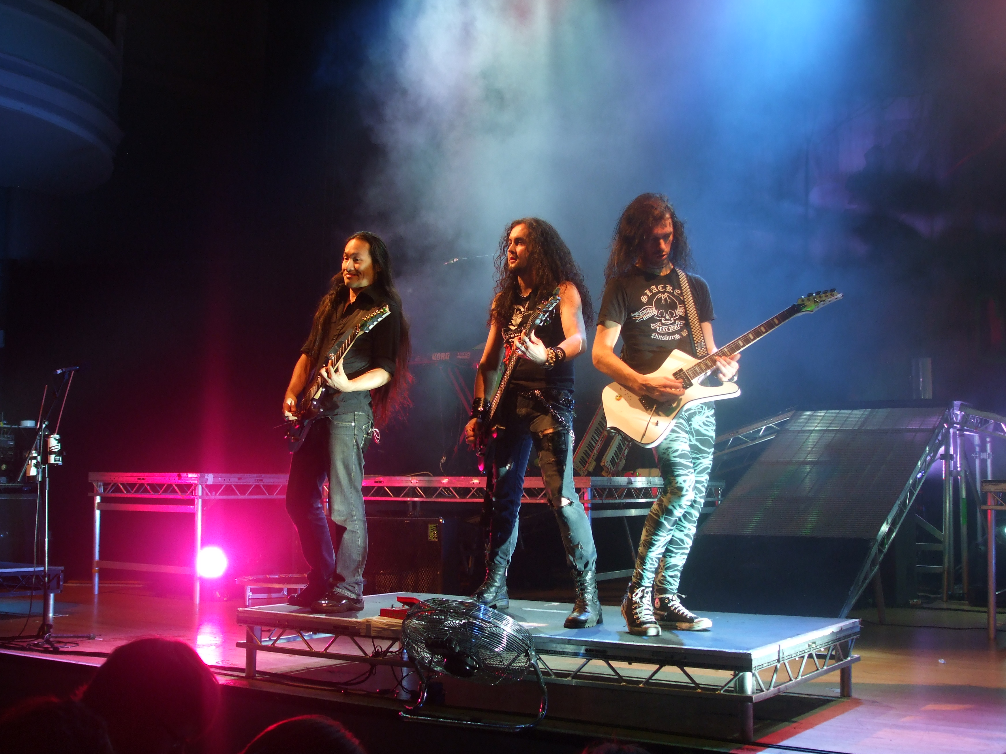 DragonForce performing at the Victoria Hall, Hanley on December 1st 2009.